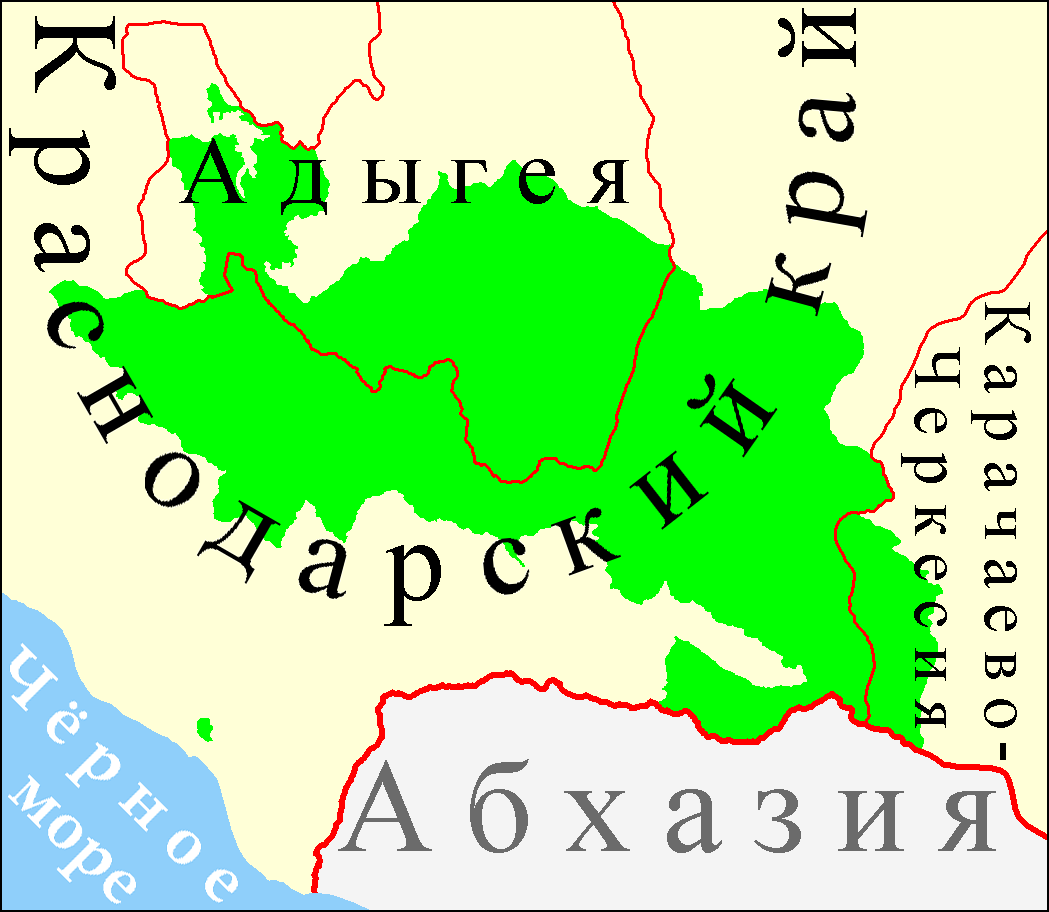 Map of the Caucasian State Nature Biosphere Reserve. Located in Krasnodar Krai, southern Russia.